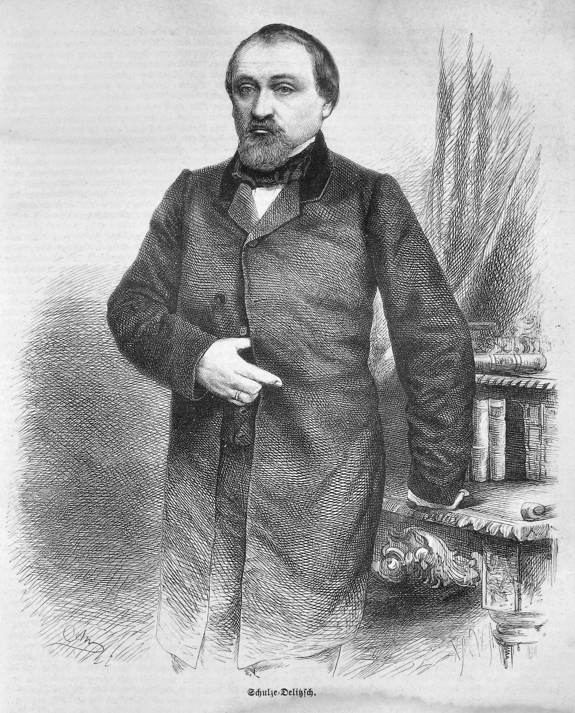 caption: "Schulze-Delitzsch."